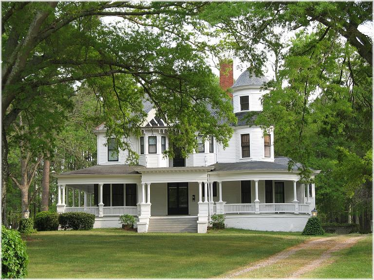 The Dr. J.H. Harris House in Franklinton, North Carolina.